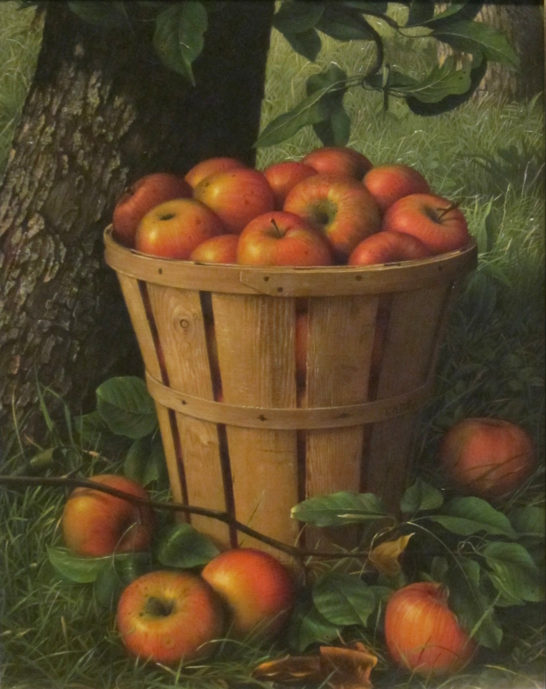 Basket of Apples